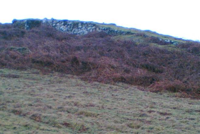 Photo of remains of top of Dolgarrog incline.